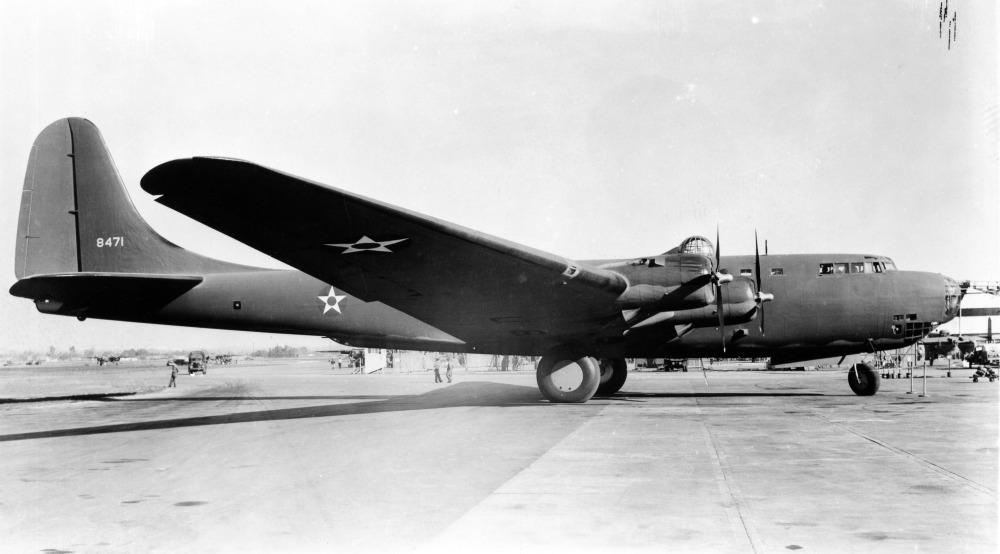 PictionID:40973063 - Title:Douglas XB-19 38-471 Mines Field - Catalog:15_002789 - Filename:15_002789.tif - Image from the Charles Daniels Photo Collection album "US Army Aircraft."----PLEASE TAG this image with any information you know about it, so that we can permanently store this data with the original image file in our Digital Asset Management System.----SOURCE INSTITUTION: San Diego Air and Space Museum Archive